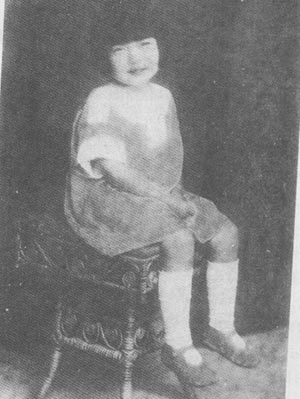 Eileen Chang (September 30, 1920 – September 8, 1995) was a Chinese writer.This is her childhood photo.